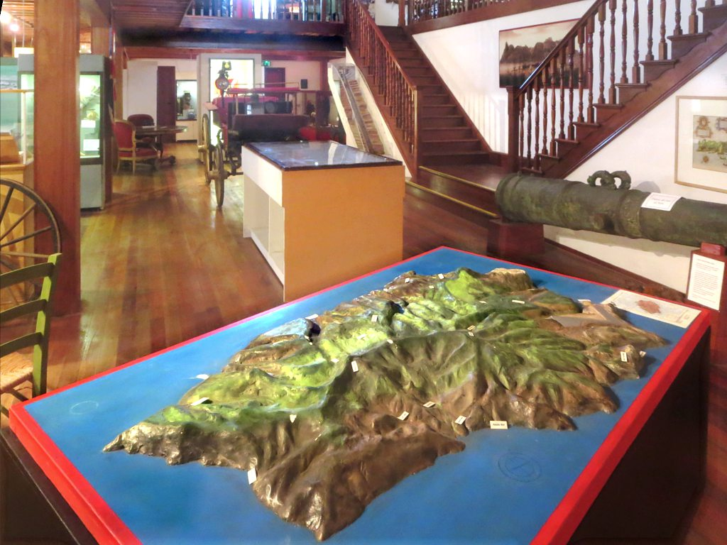 The Museum of St Helena in Jamestown was fully renovated in 2002 to mark the 500th anniversary of St Helena Island's discovery.